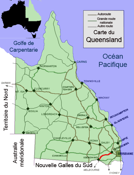 La Gore Highway au Queensland en Australie